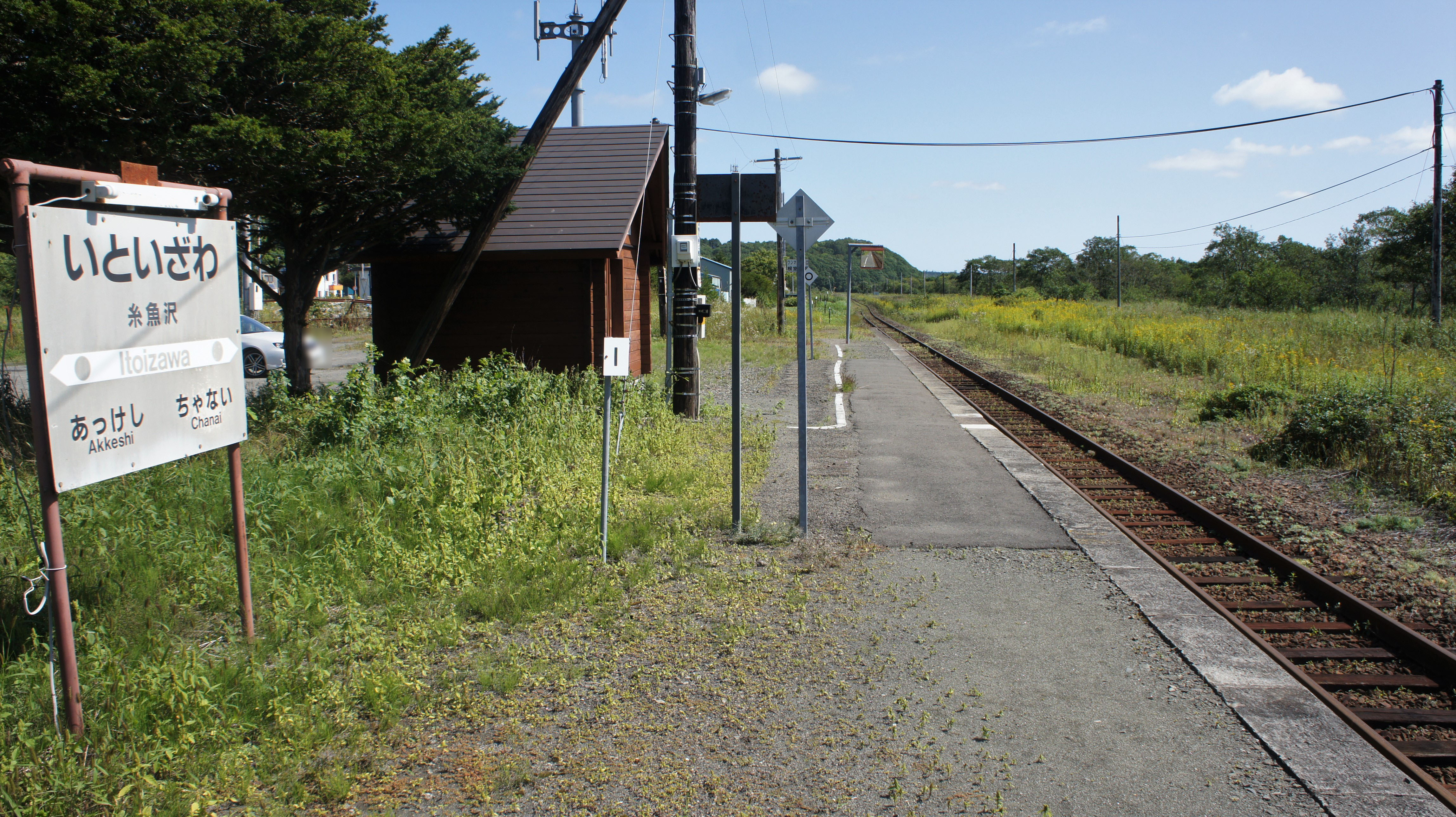 Platform of JR Nemuro-Main-Line Itoizawa Station